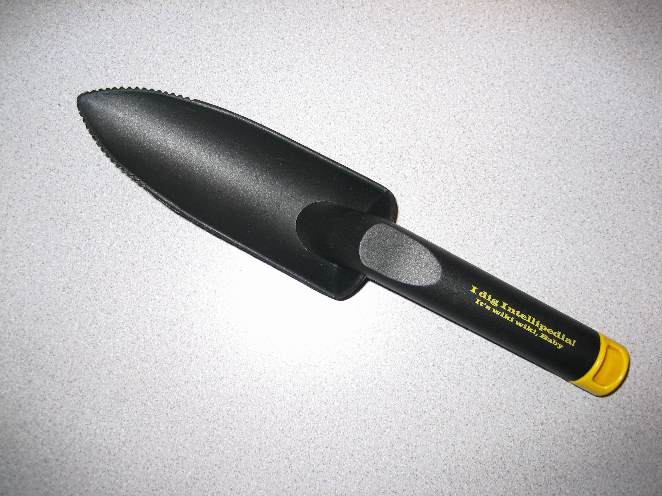 An Intellipedia shovel. These are the equivalent of Meatball / Wikipedia BarnStars, except they award both virtual and real shovels (for gardening Intellipedia, the U.S. intelligence community's Wiki). This particular shovel was given to Eugene Eric Kim on September 26, 2006. He claims to be the first person outside of the intelligence community to receive one of these shovels.[1] This picture and more information (including the Creative Commons license) can be found on Flickr.